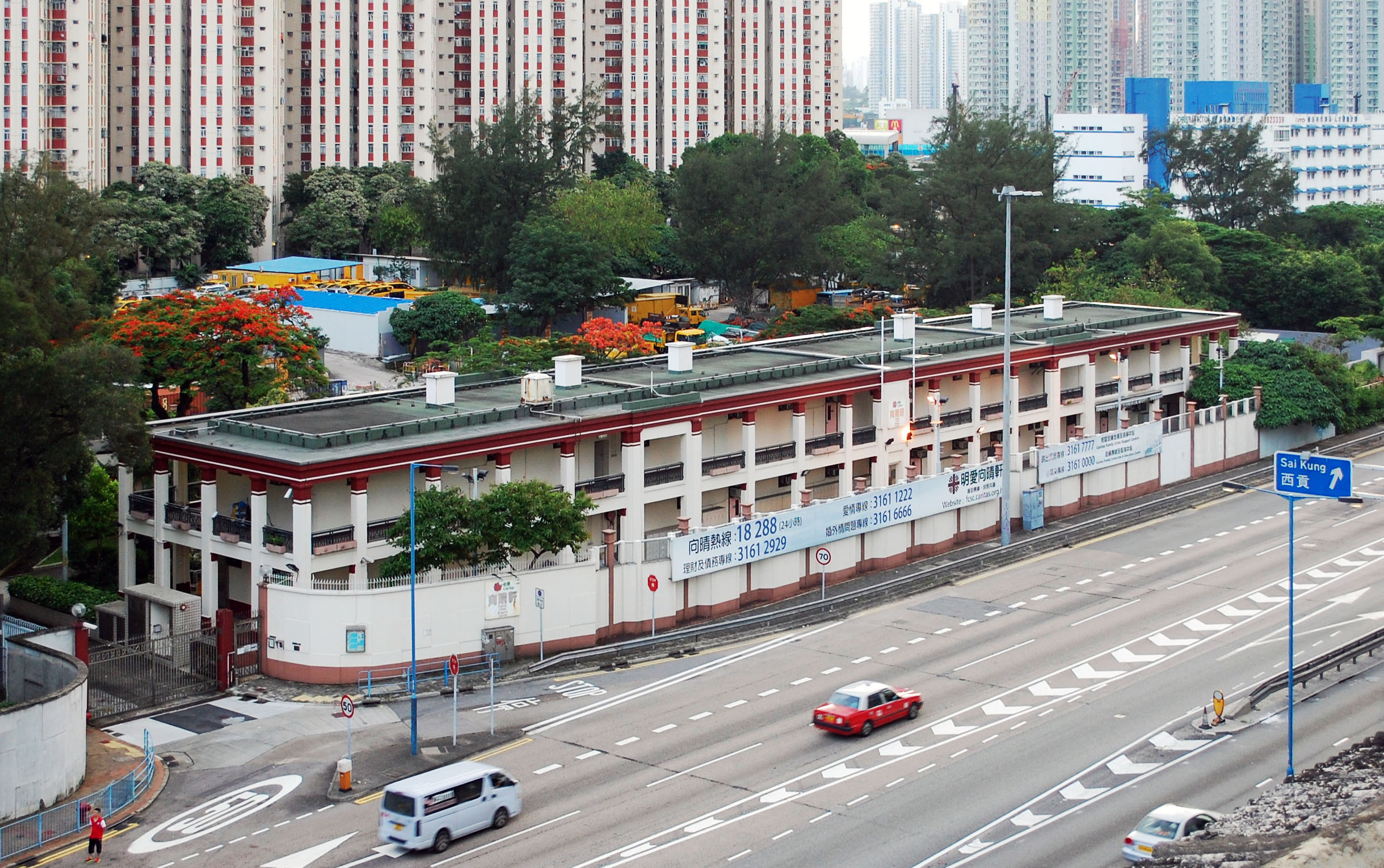 Caritas Family Crisis Support Centre, 50 Kwun Tong Road. 中文（香港）: 明愛向晴軒